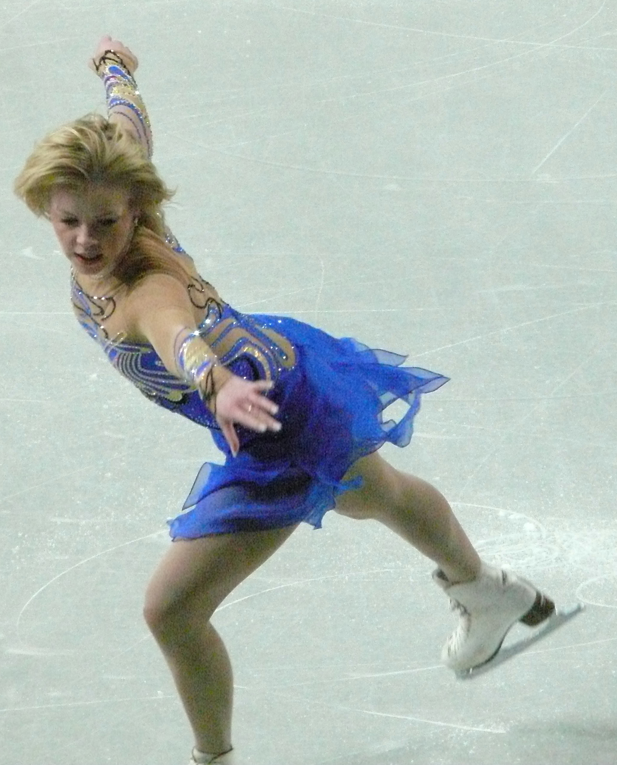 Elena Sokolova at the sort program at the European Championships 2007 in Warsaw